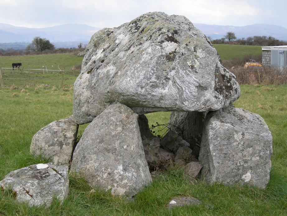 Carrowmore